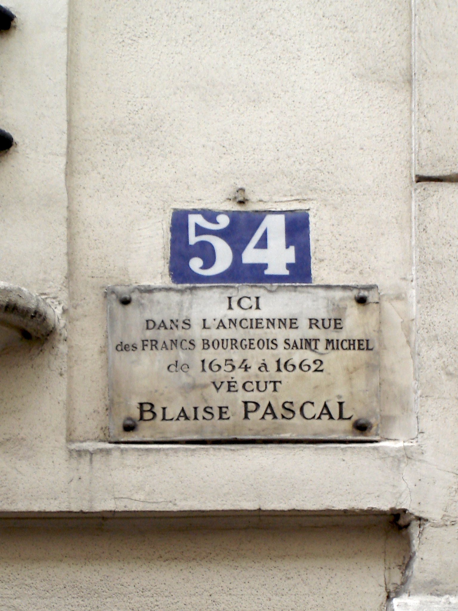 Commemorative plate on the wall of the 54 rue Monsieur le Prince in Paris, mentionning Blaise Pascal has lived in this house from 1654 to 1662